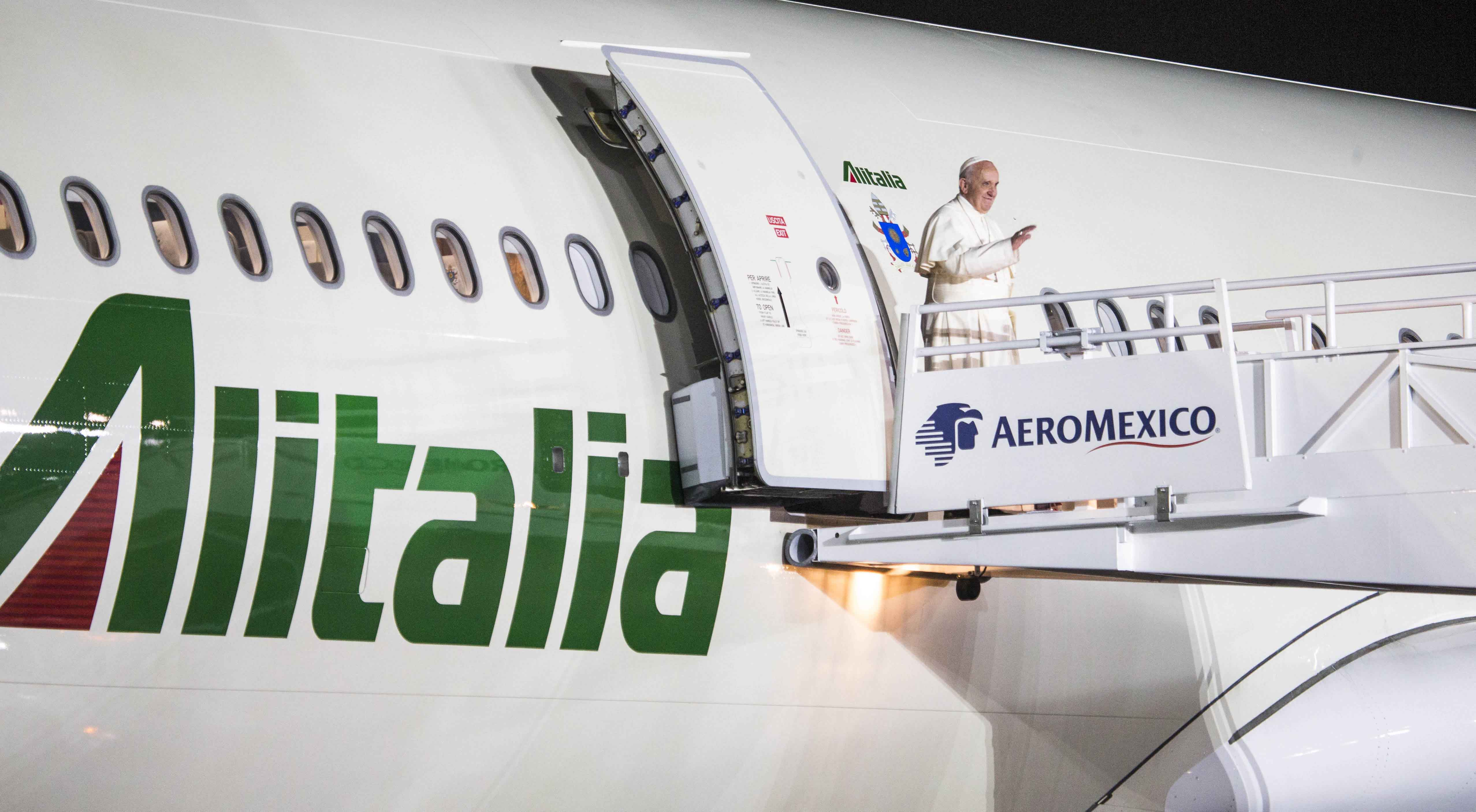 12 de febrero del 2016